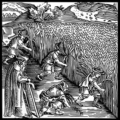 Image from "Book of Ruth" of Francysk Skaryna